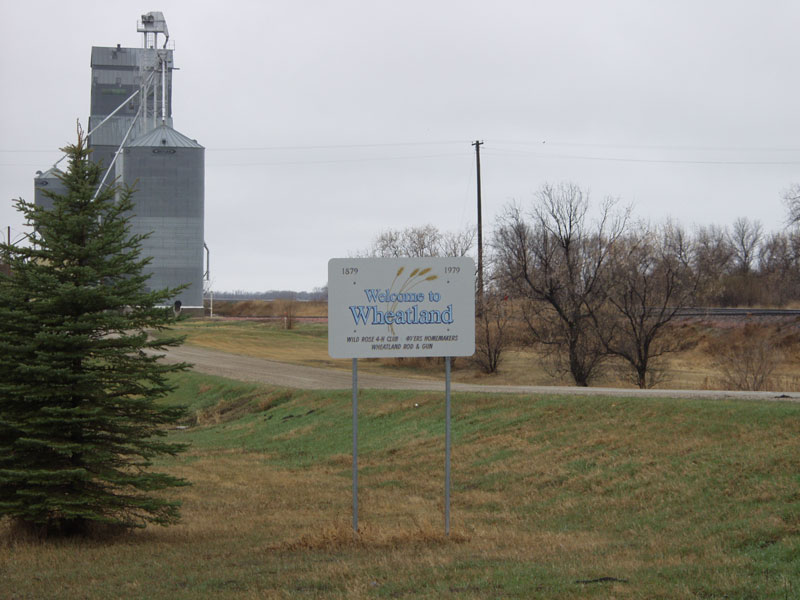 Wheatland, North Dakota. From .